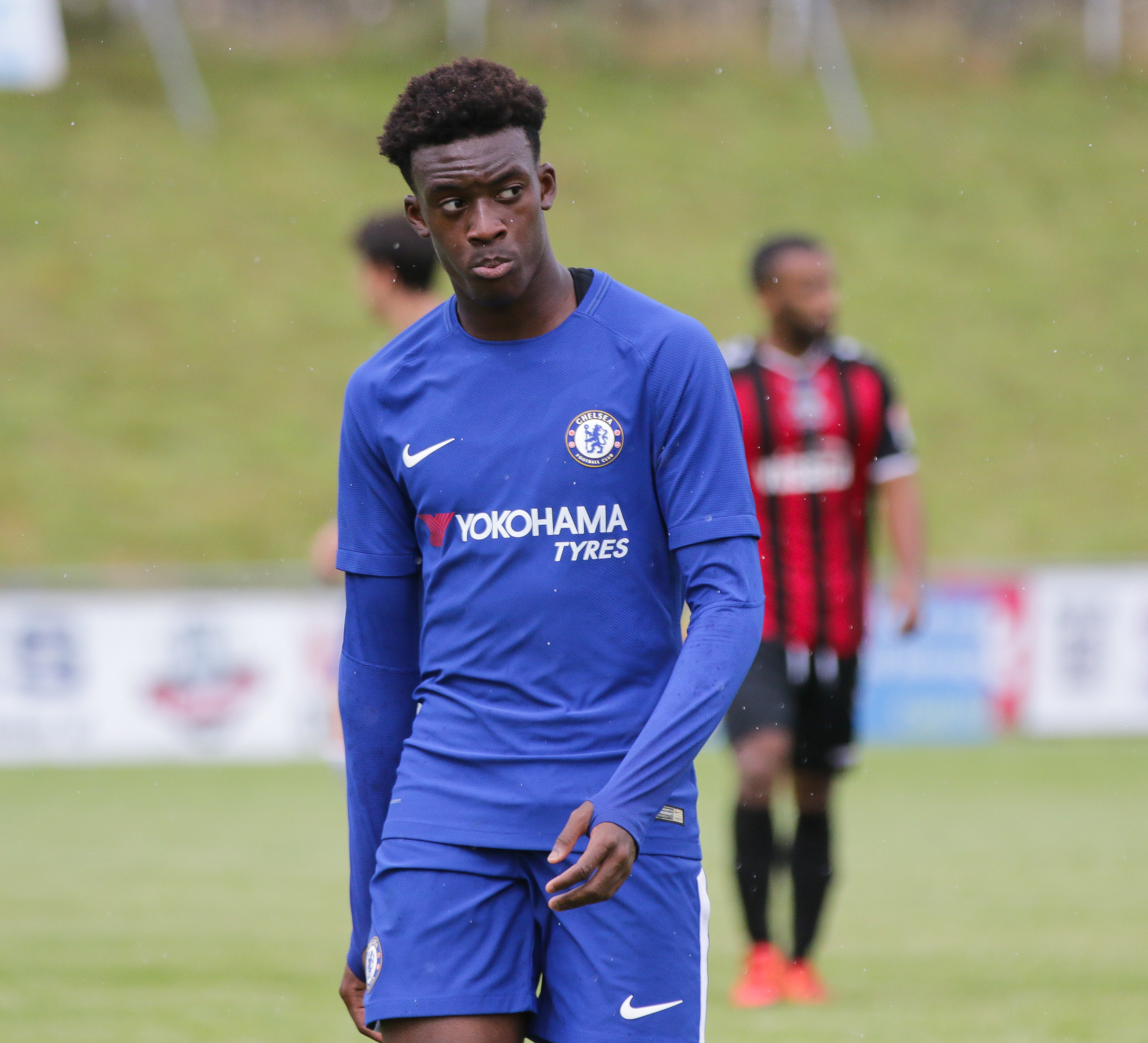 Lewes 0 Chelsea DS 1 Pre Season 22 07 2017-599.jpg